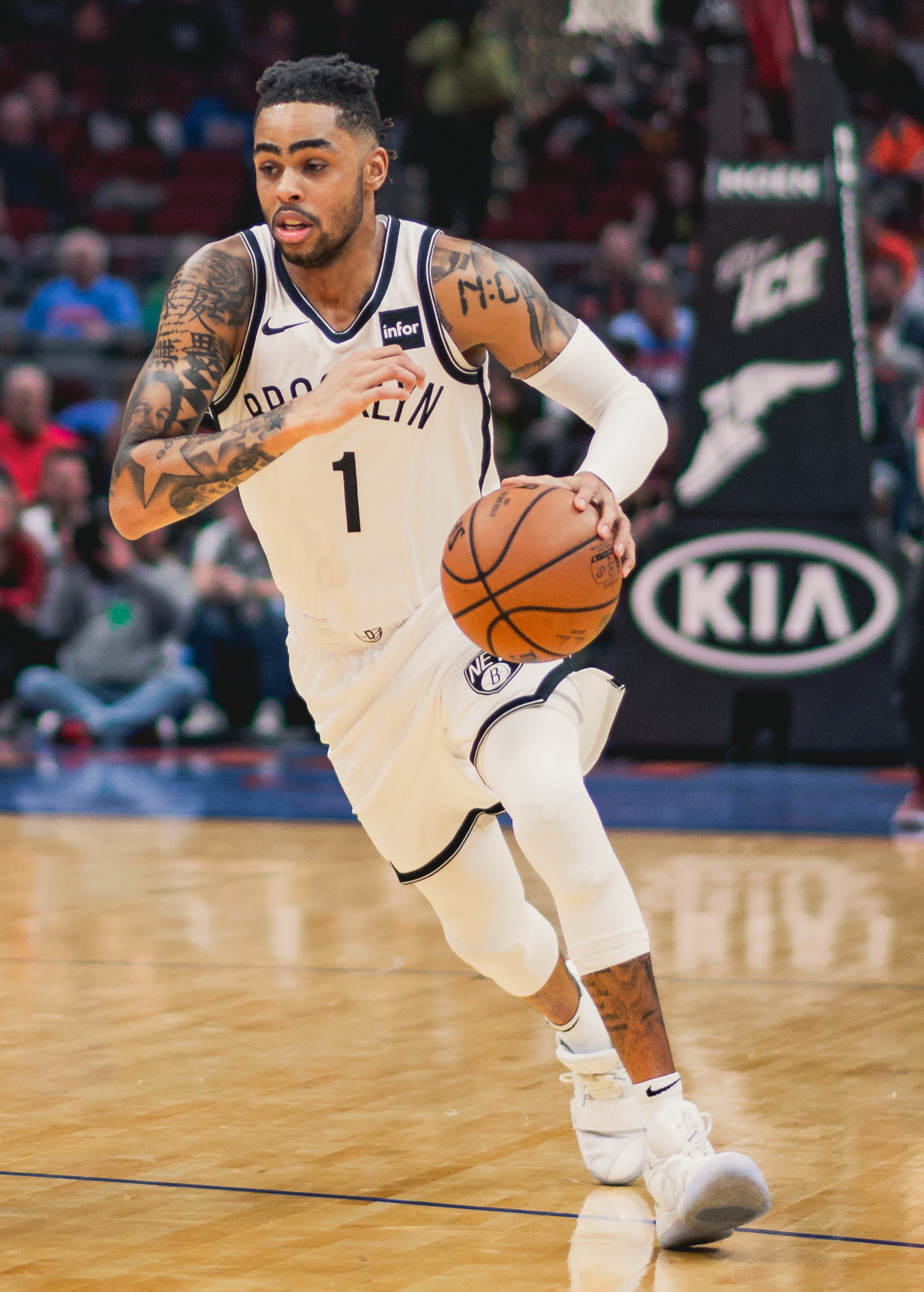 Cleveland Cavaliers vs. Brooklyn Nets